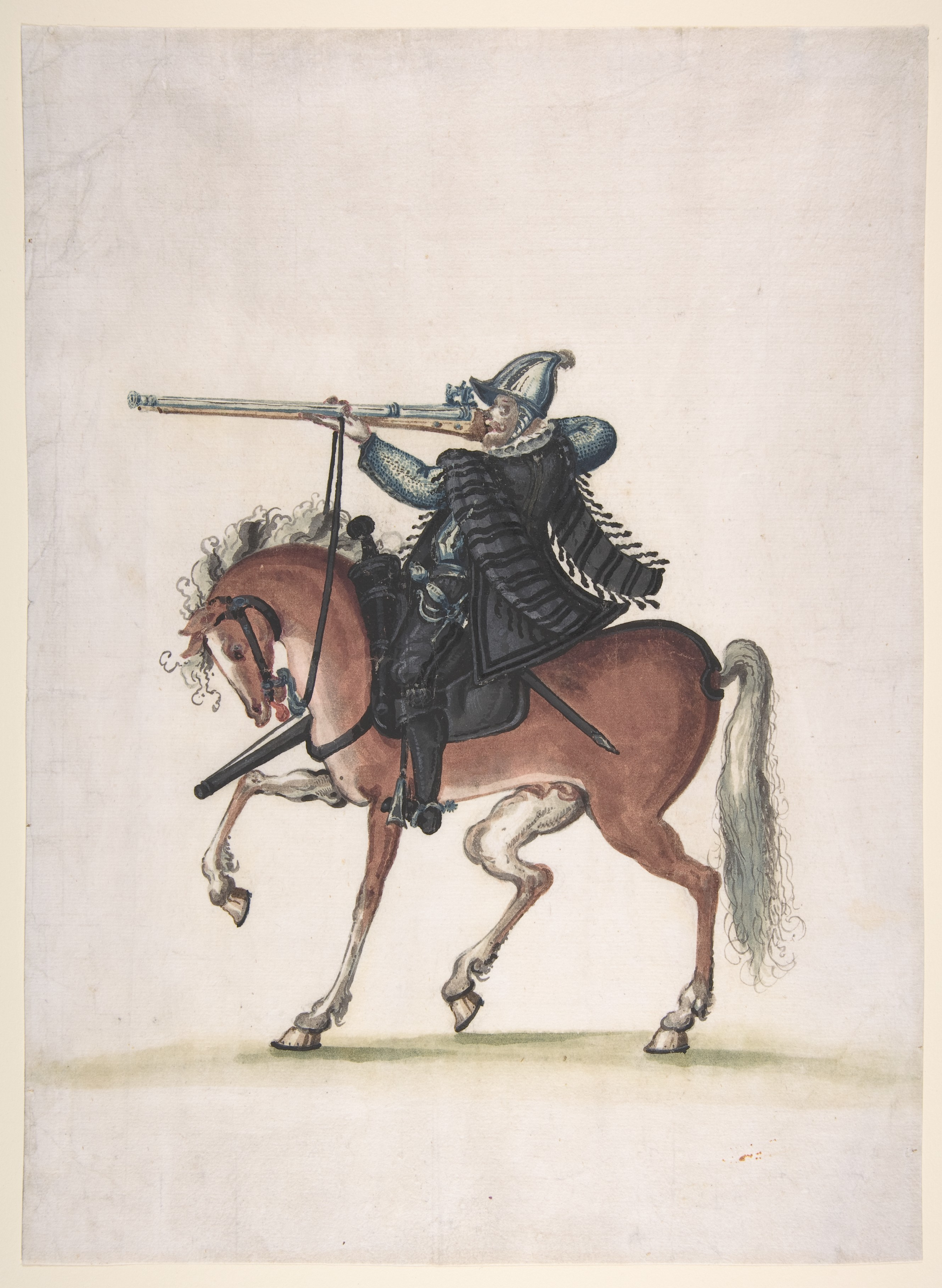 Austrian; Drawing; Works on Paper-Drawings